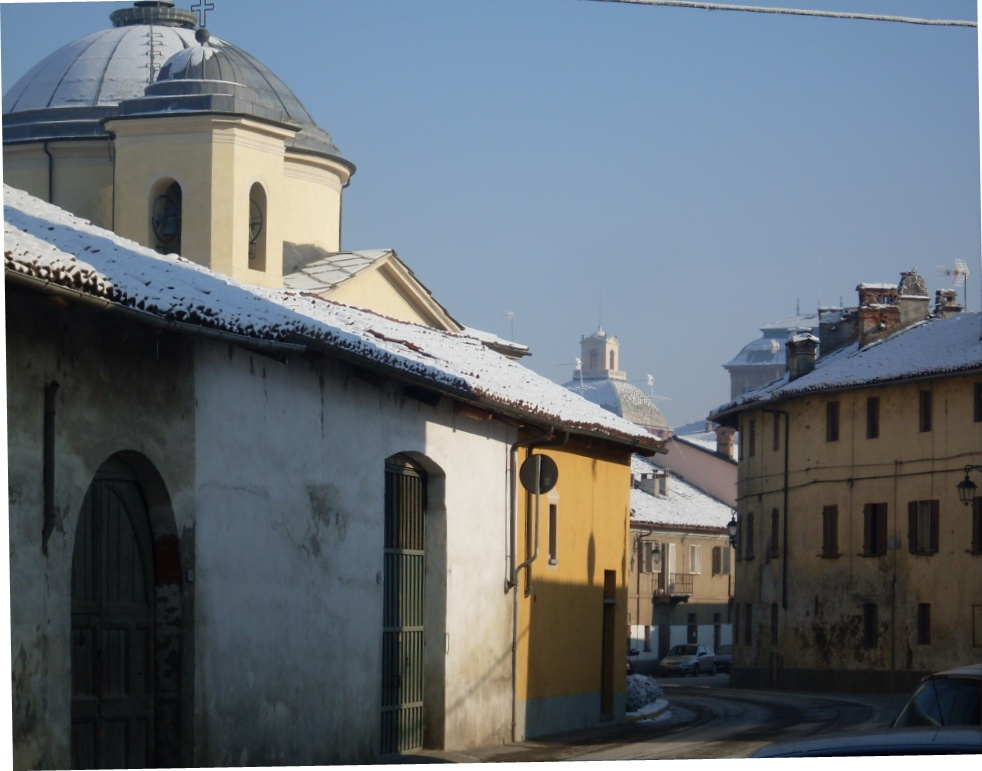 Racconigi (cn) Borgo Macra